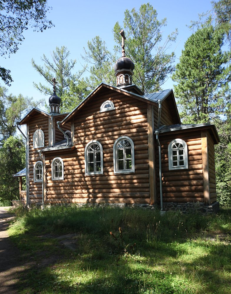 Valaam. Konevsky Skete.